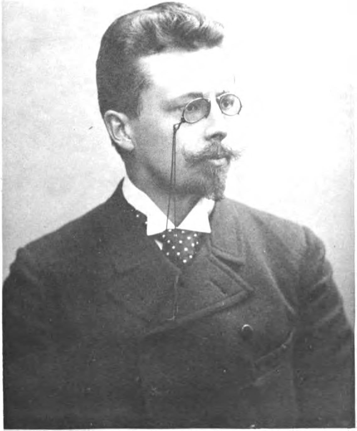 Photo of Finnish psychologist Hjalmar Neiglick.